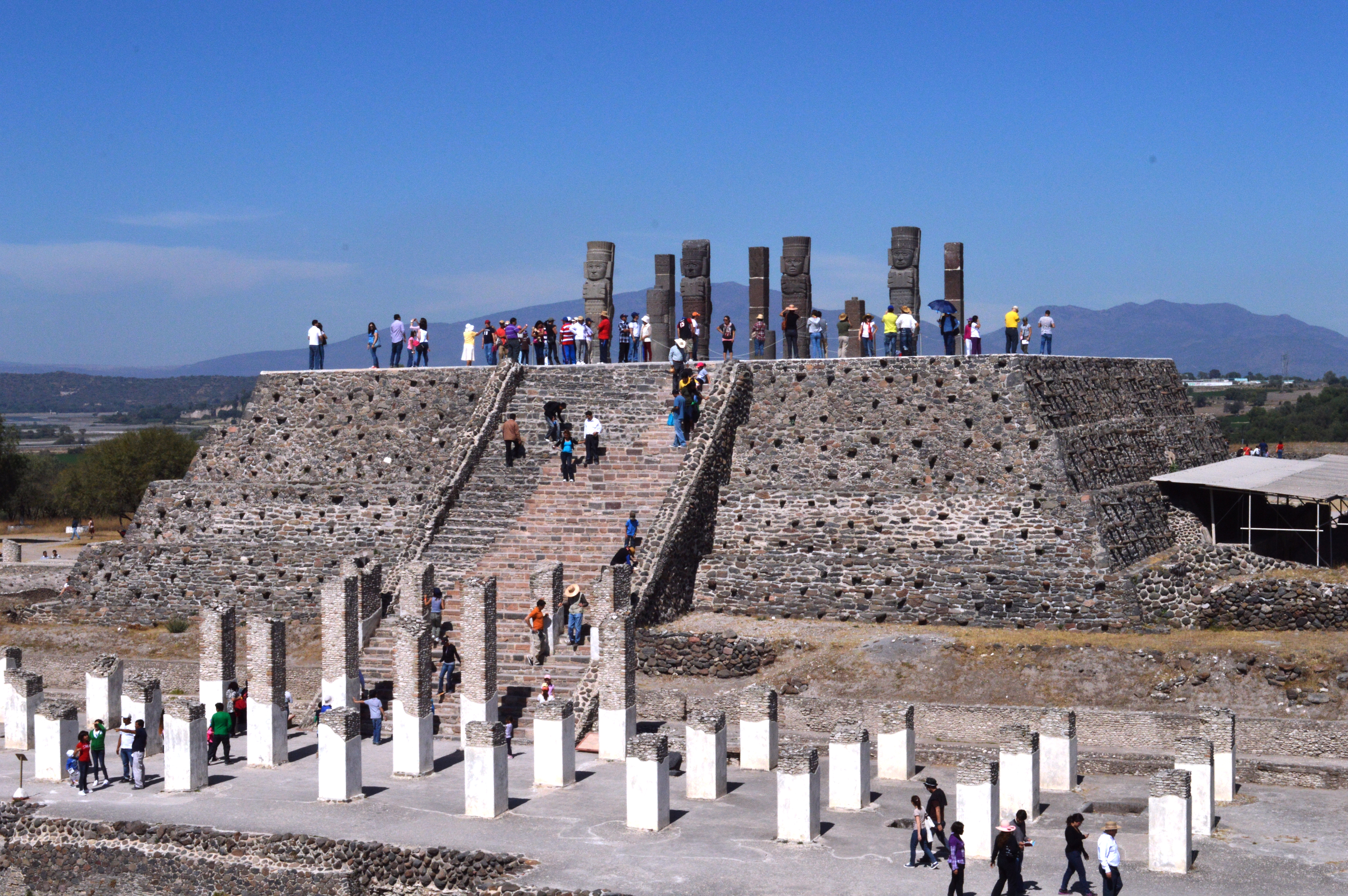 View of Pyramid B at the Tula archeological site in Hidalgo, Mexico